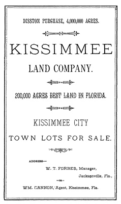 Notice of land sale by Hamilton Disson in 1881